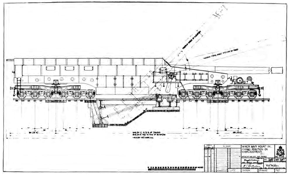 Diagram showing right elevation of US 14 inch 50 caliber naval gun on Mk I railway mounting, with recoil pit excavated below.